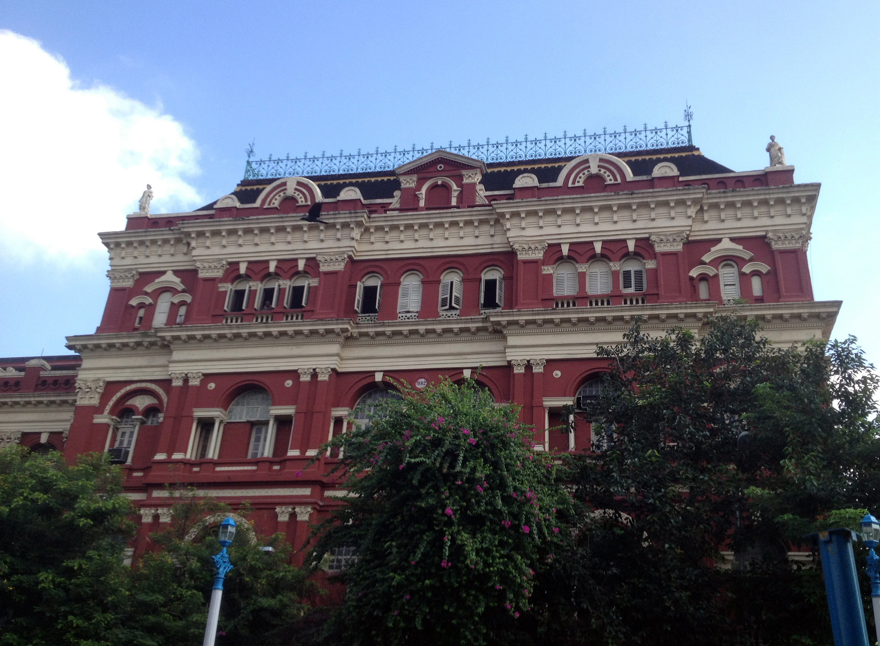 Writers' Building, Calcutta, India